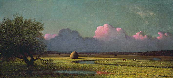 Sunlight and Shadow: The Newbury Marshes (c. 1871-1875) Martin Johnson Heade Oil on canvas Size: 30.5 x 67.3 cm (12 x 26 1/2) John Wilmerding Collection The National Gallery of Art (Washington, D.C.) Web site